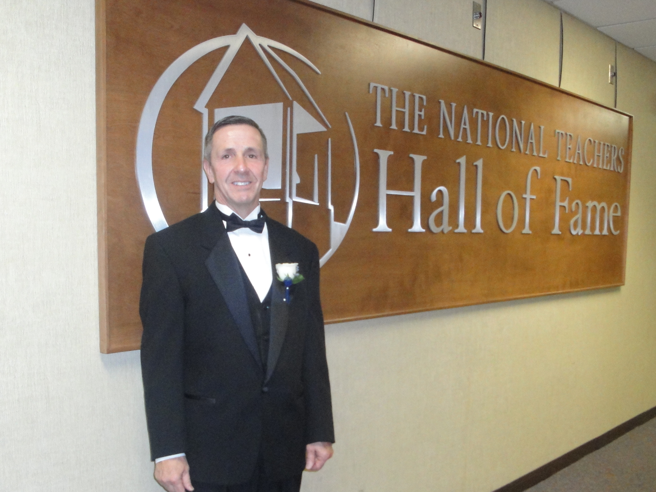 Warren Phillips inducted into the National Teachers Hall of Fame 2010